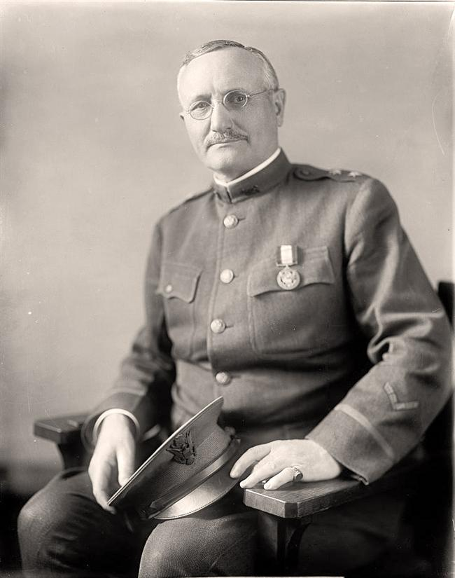 William Luther Sibert (October 12, 1860 – October 16, 1935) was a United States Army officer with the rank of Major general, who commanded the US 1st Infantry Division during the World War I.